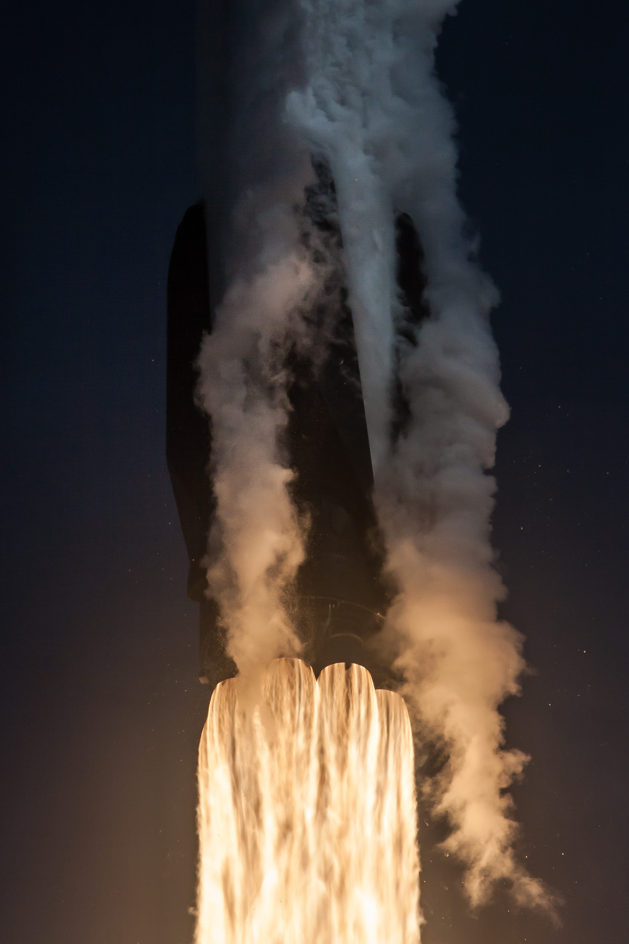 Bangabandhu Satellite-1 Mission